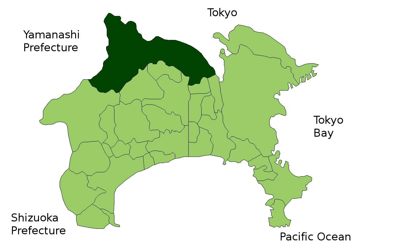 Location Map of Sagamihara in Kanagawa Prefecture, Japan